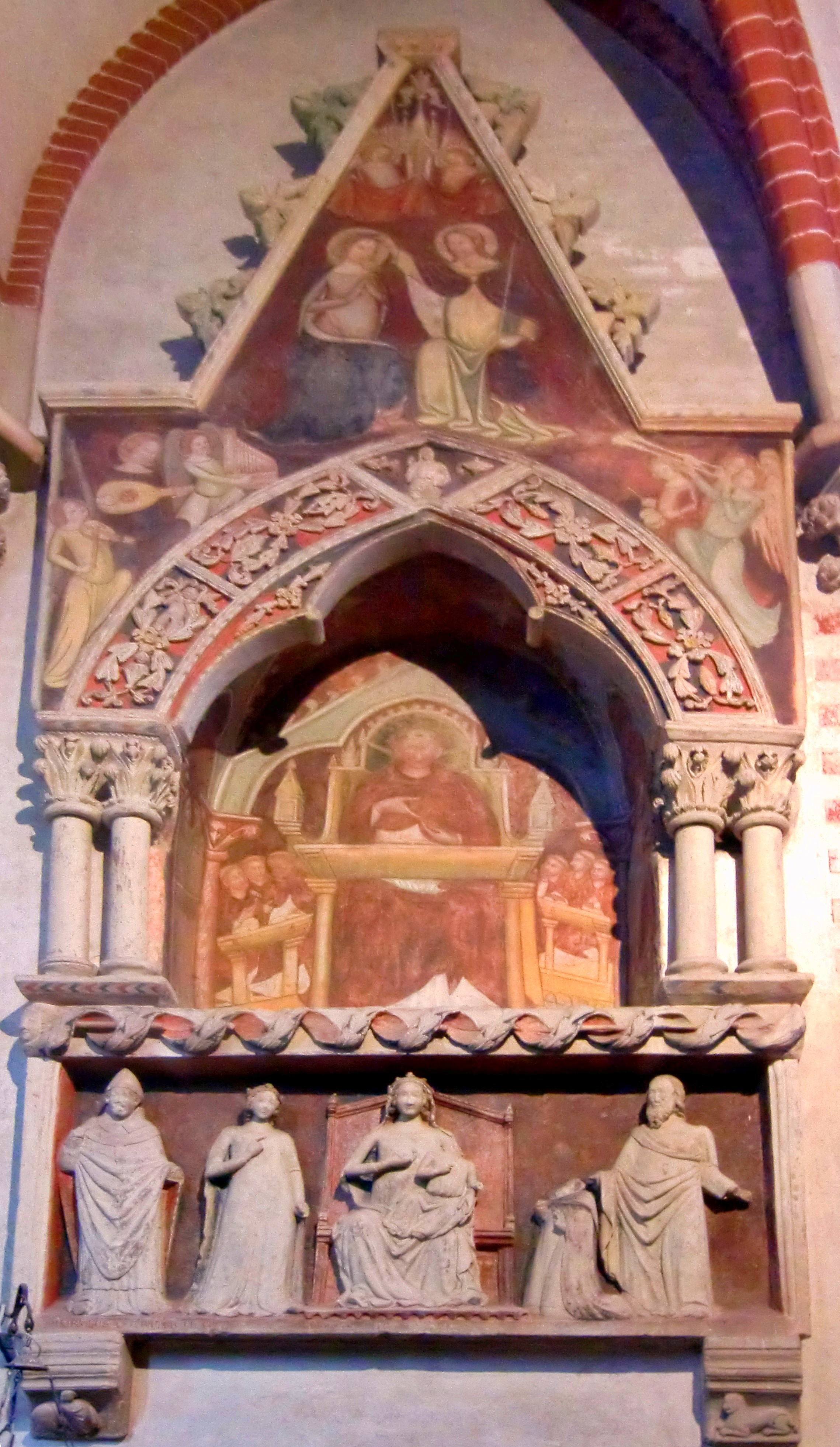 Vercelli, Basilica di Sant'Andrea, tomb of the abbott Tommaso Gallo, ca. 1350